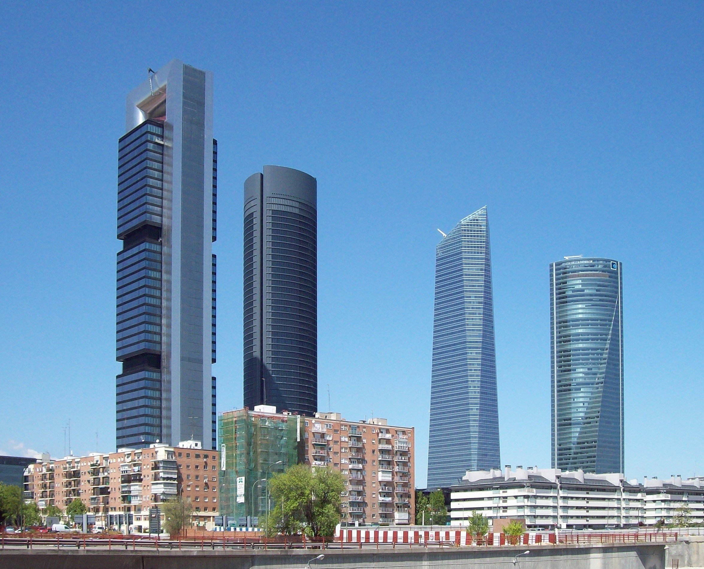 View of Cuatro Torres Business Area (CTBA) in Madrid (Spain) from Chamartín railway station.